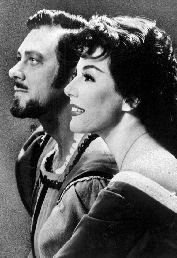 Photo of vocalists Earl Wrightson and Lois Hunt.